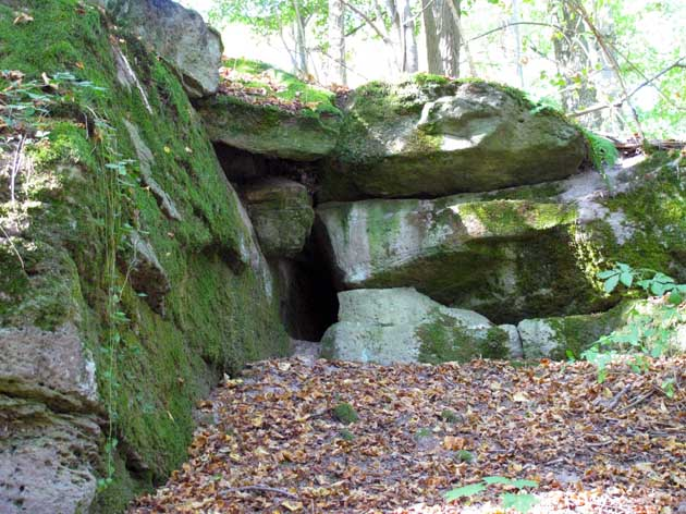 Caves of the of the dwarfs near Bad Kissingen (Germany)